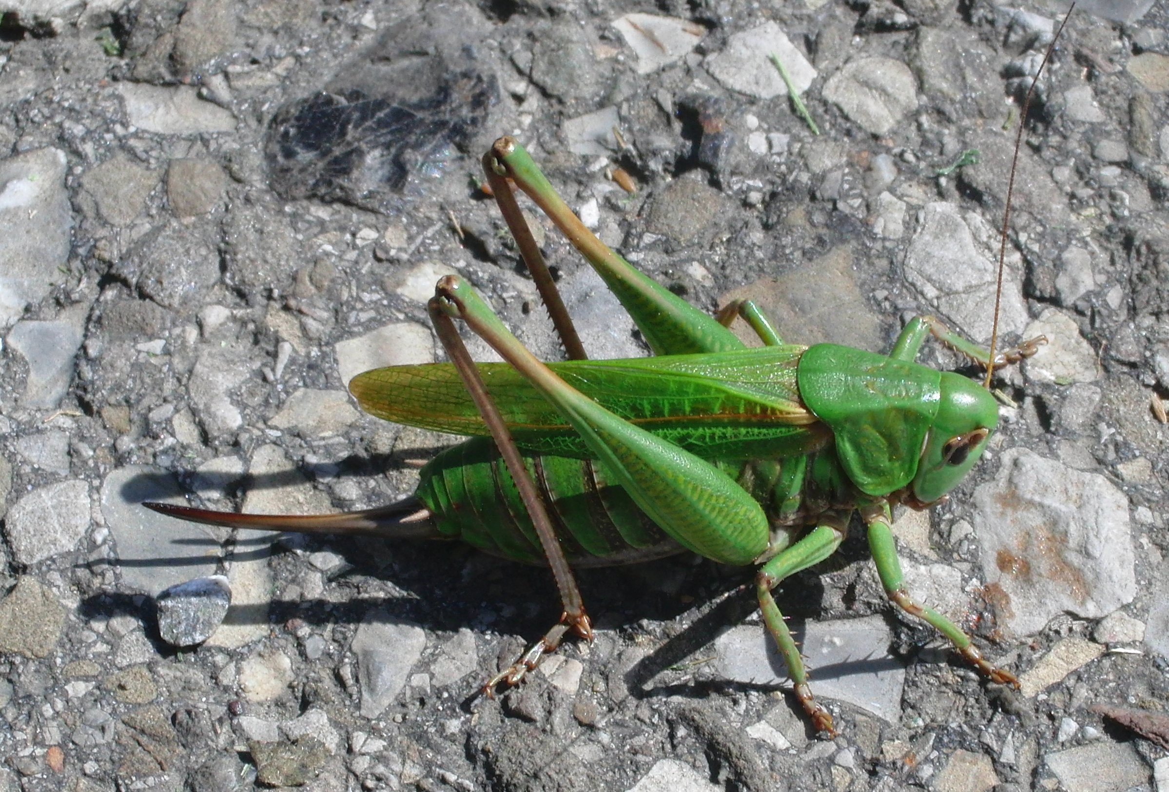 Decticus verrucivorus, Wart-biter, female